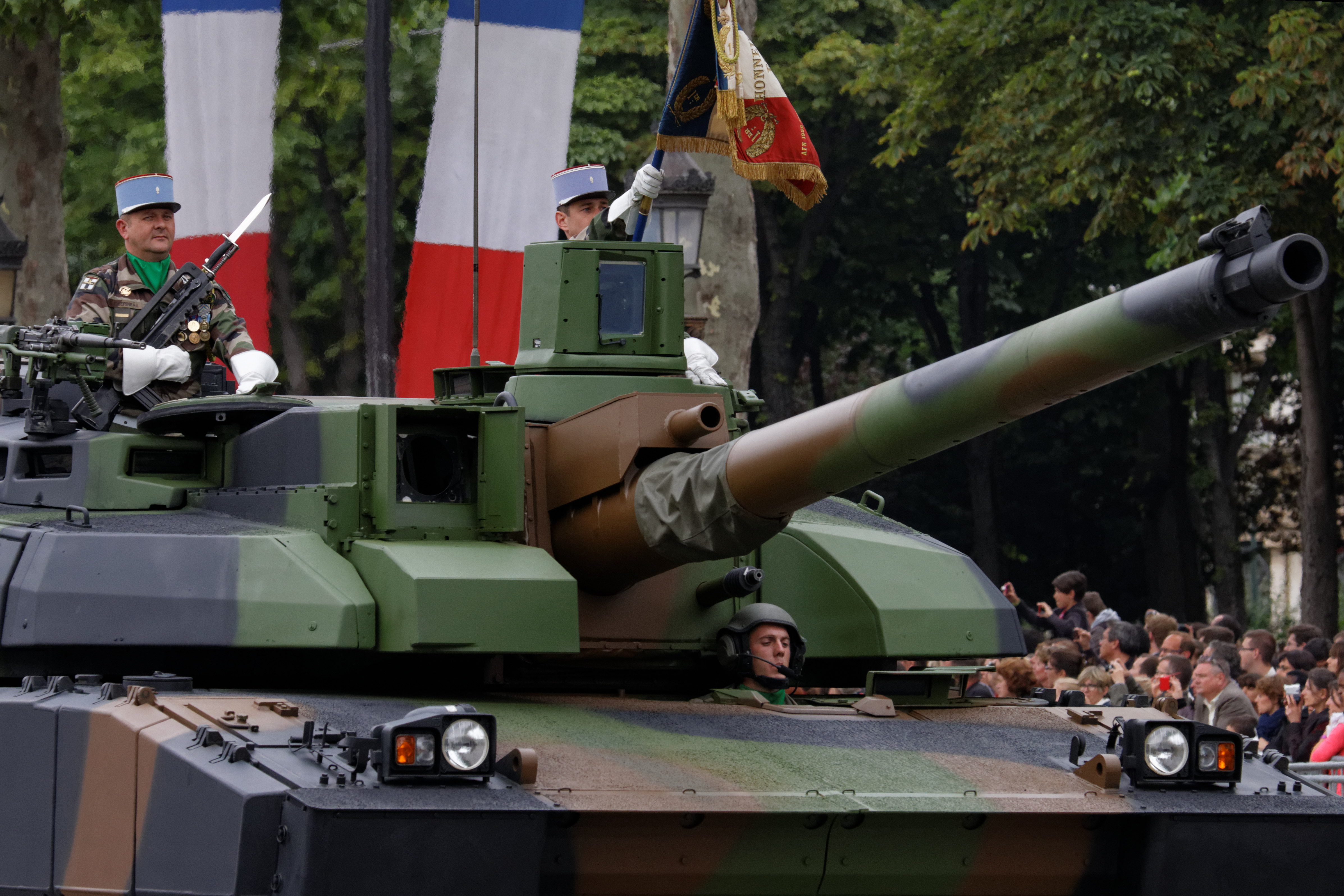 Bastille Day 2014 military parade on the Champs-Élysées in Paris. Motorised troops.